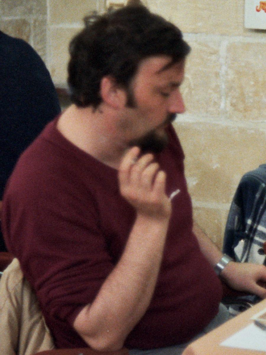 Otto Borik at the Chess Olympiad 1980 in Malta, Photographer Gerhard Hund.